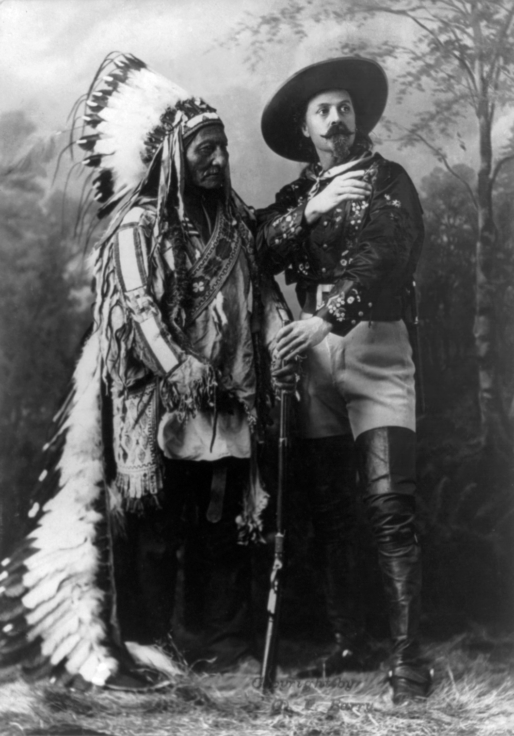 Sitting Bull and Buffalo Bill, 1885